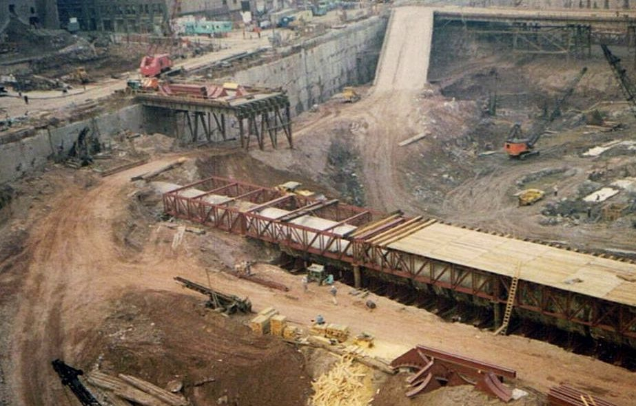 Underground excavation at the construction site of the World Trade Center, photographed April 1968 by Ava Bianca